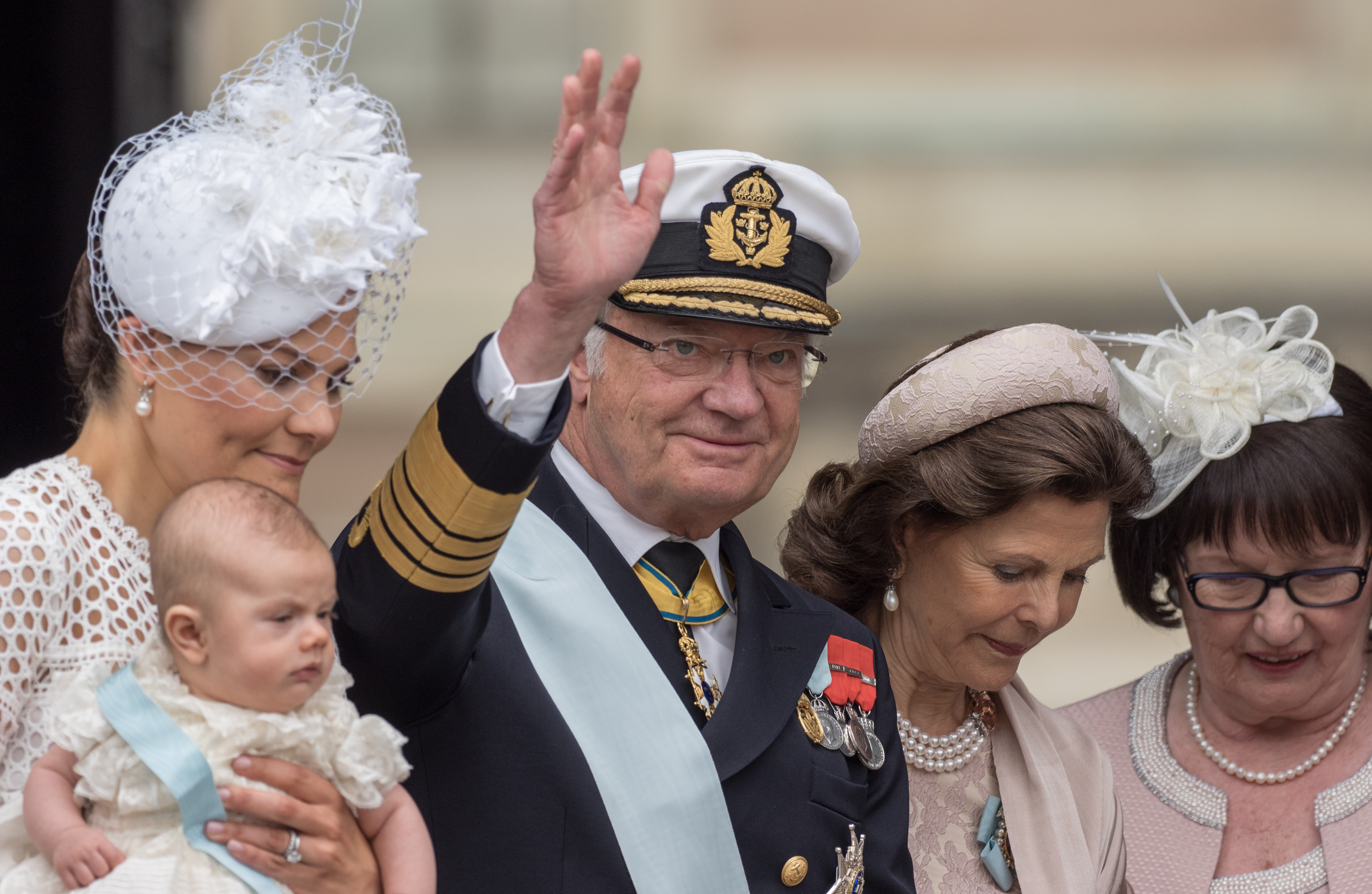 Carl XVI Gustaf of Sweden 2016